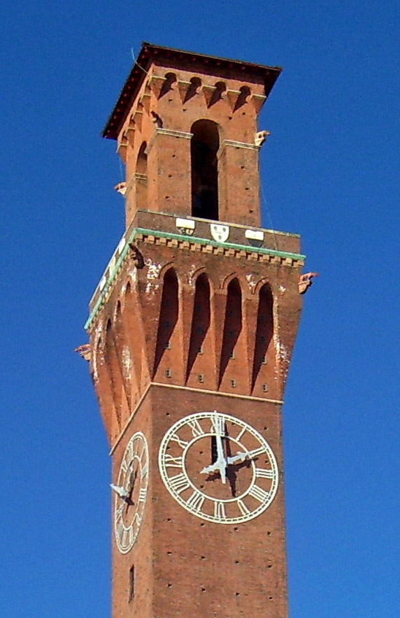 Clock tower detail, former Union Station, Waterbury, CT, USA